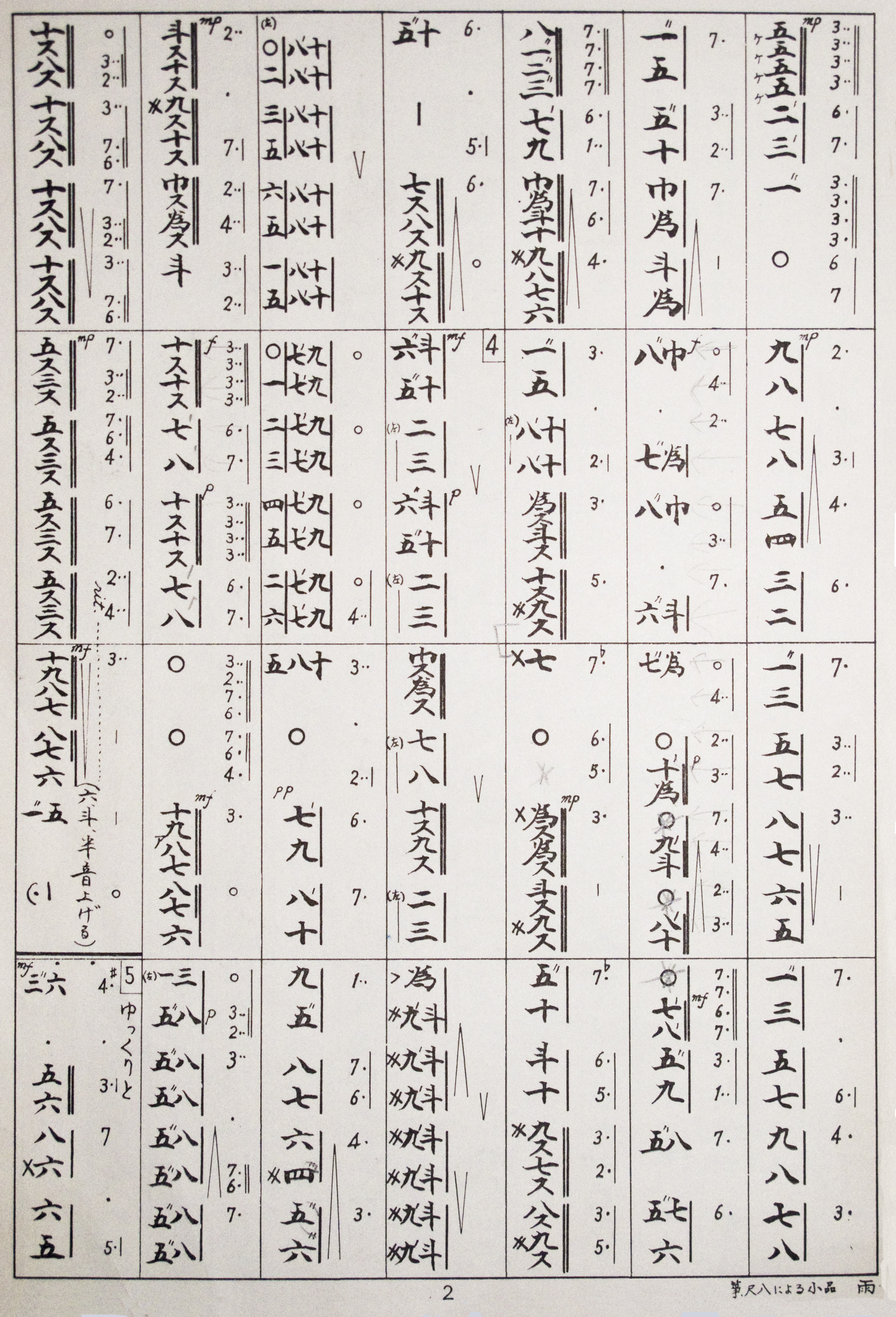 Koto and shakuhachi notation, Japanese